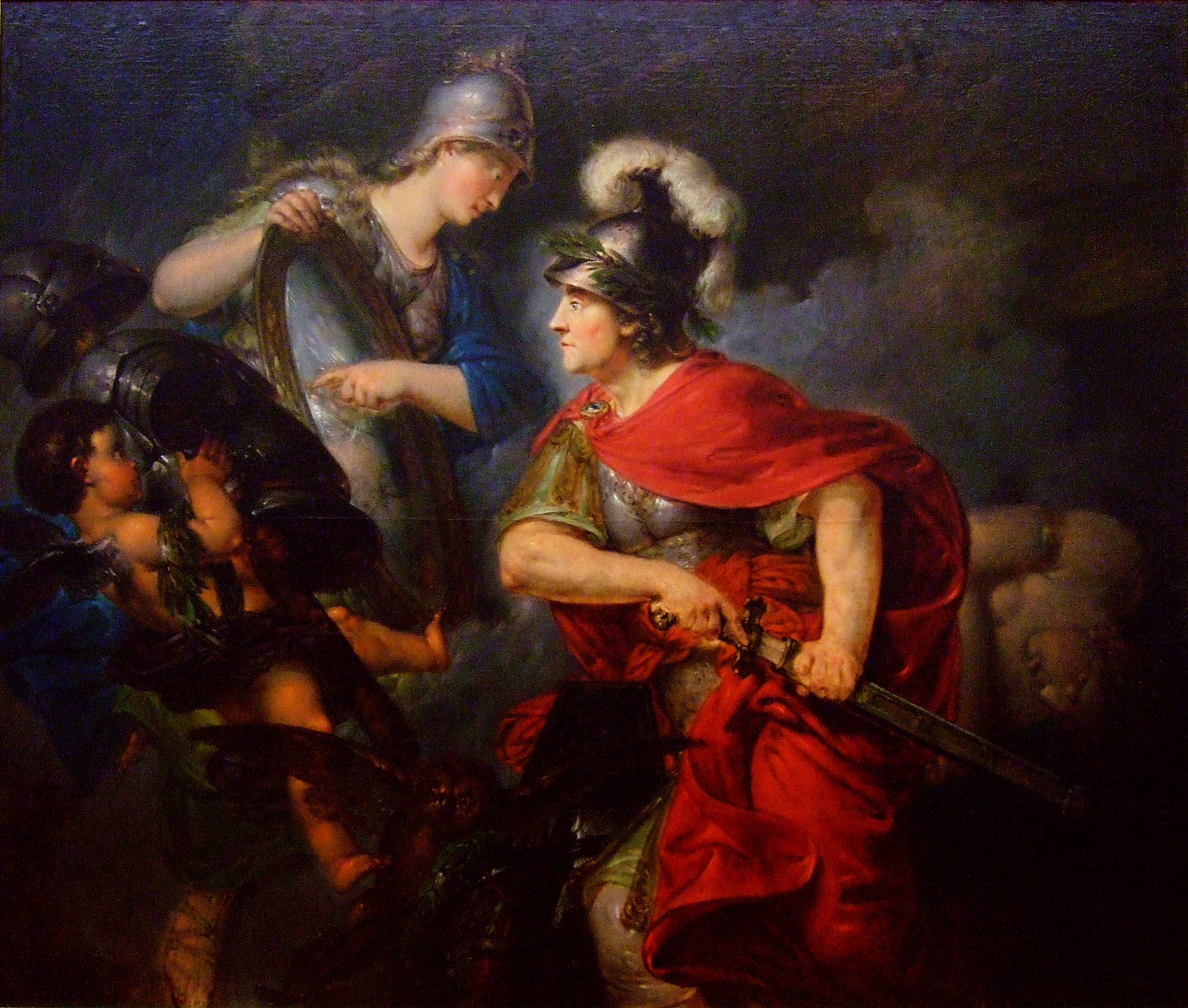 Frederick the Great as Perseus (1789) by Bernhard Rode - allegory on the outbreak of the Seven Years' War in 1756